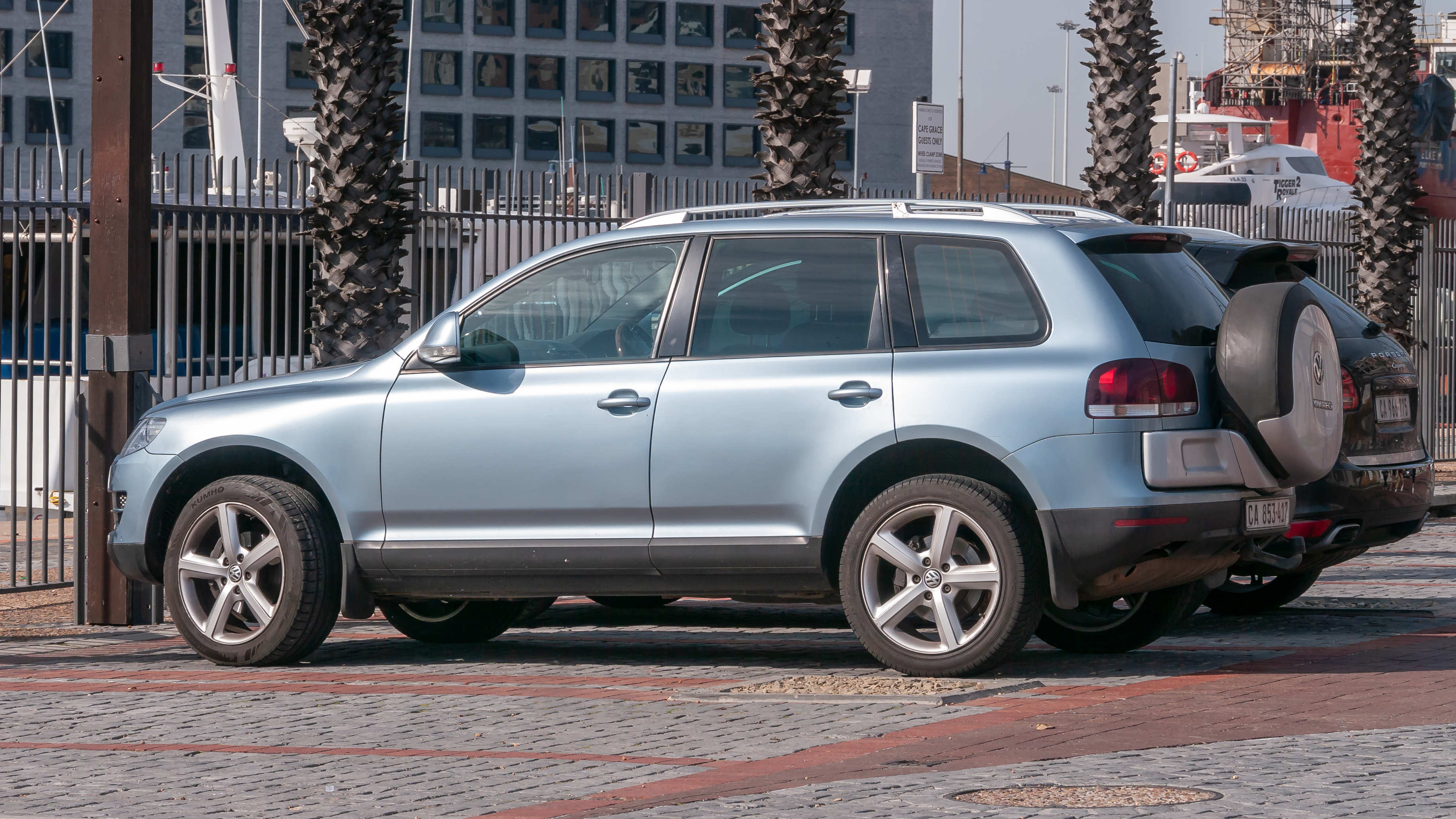 Volkswagen Touareg, Cape Town